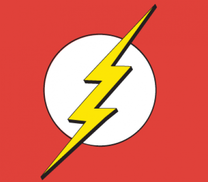 Flash symbol